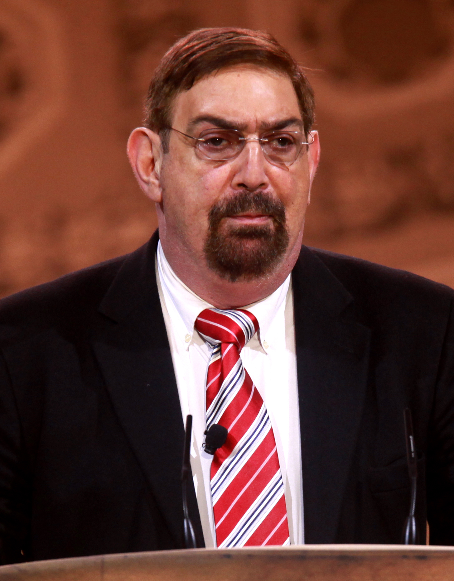 Patrick Caddell speaking at the 2014 CPAC in Washington, D.C.